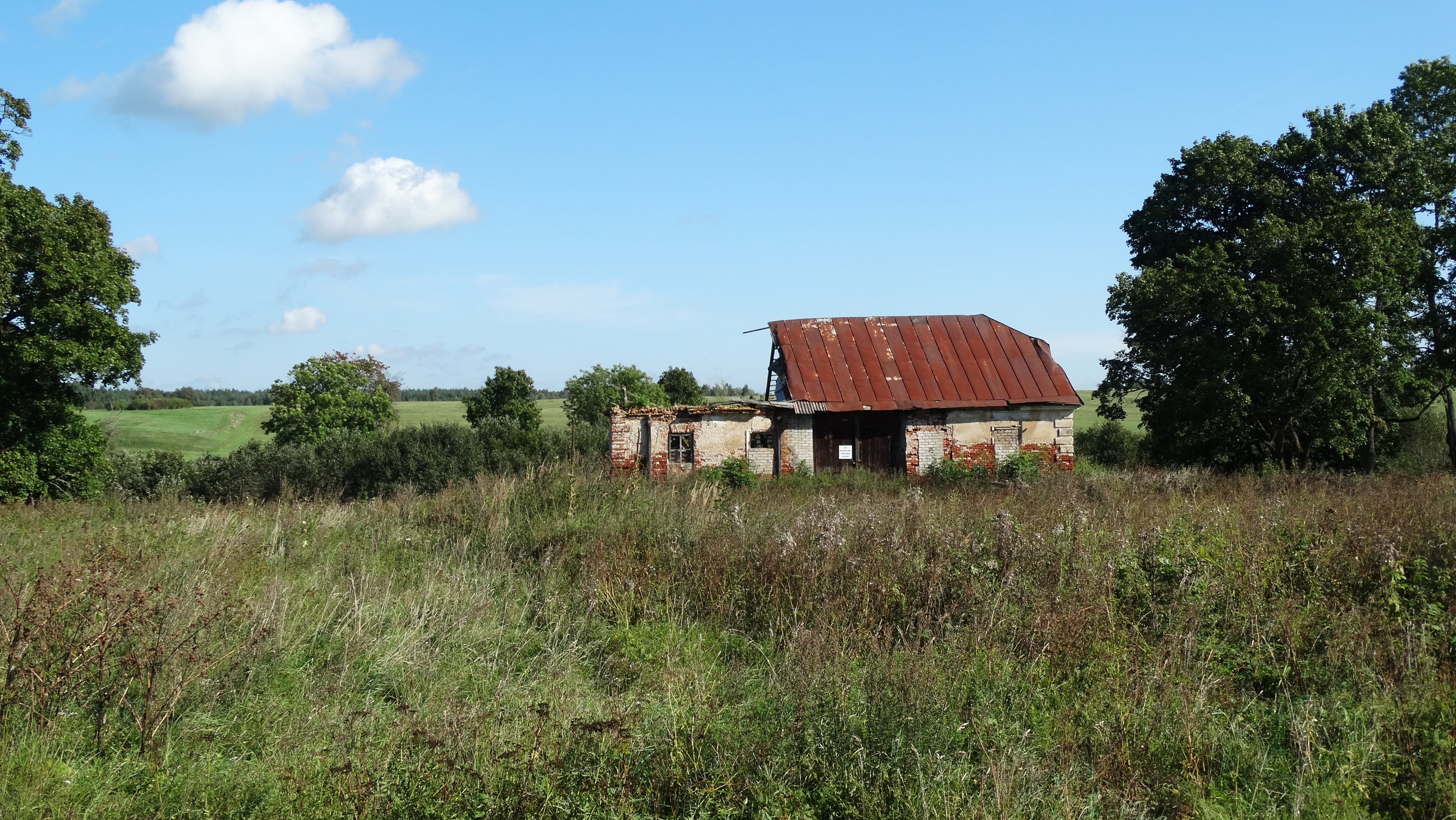 Former manor, Pavirinčiai, Anykščiai district, Lithuania